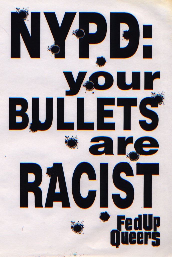 Original sticker, property of the uploader.